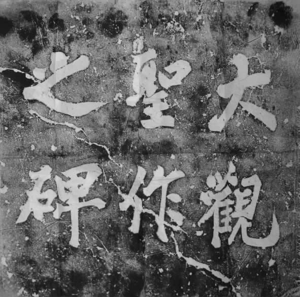 Daguanshengzuozhibei, A stone erected during Song Dynasty.